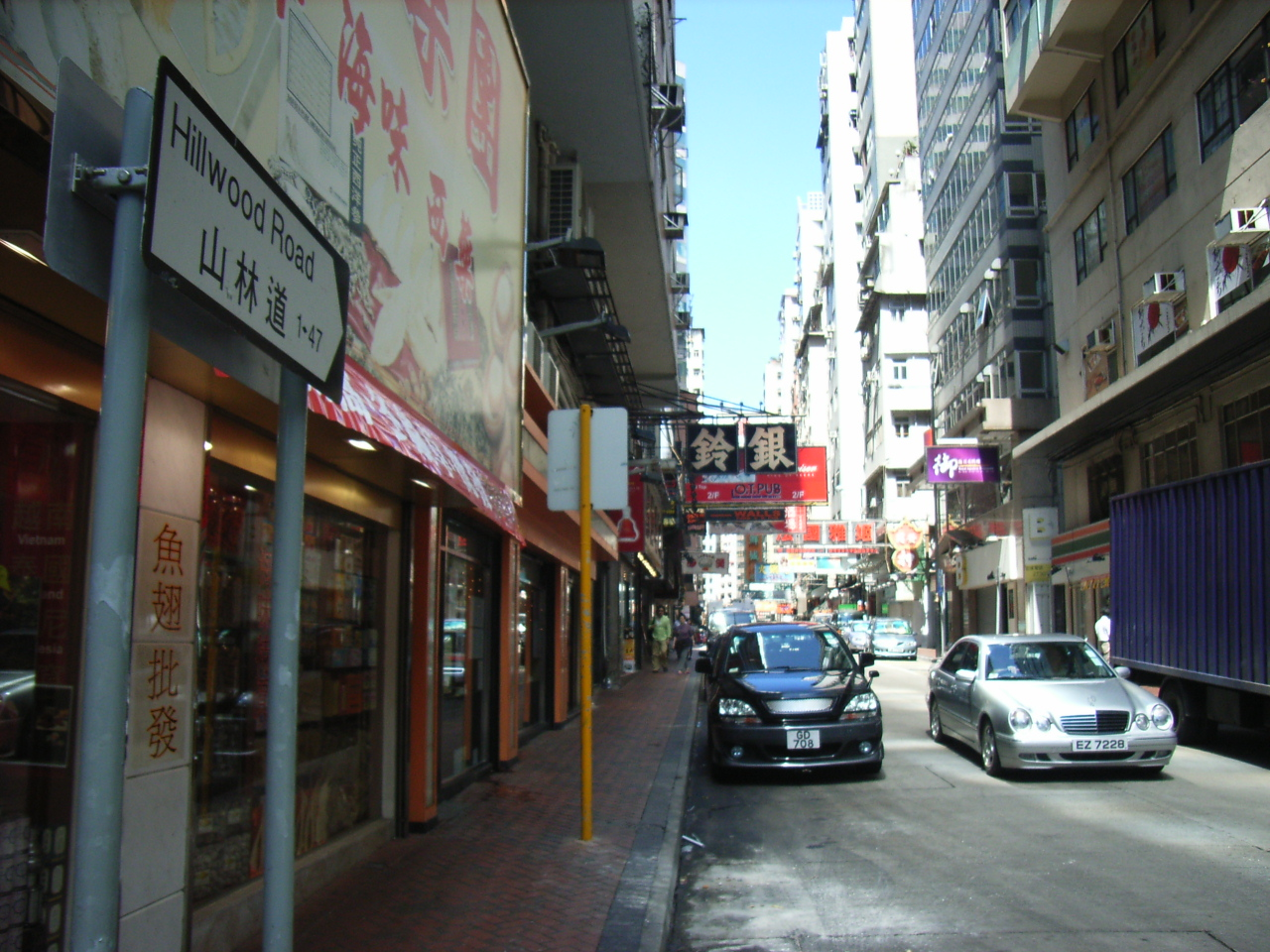 Hillwood Road, TST, Kln Photo by TonySKTO